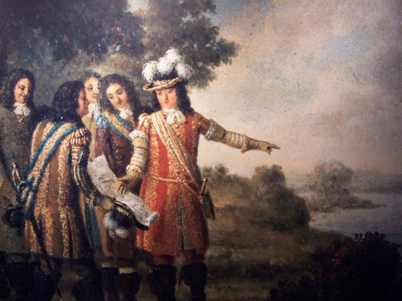 The painting shows the King Karl XI pointing out the place for "Carls-Croona". This happened when the king landed on the island Trossö the 19th november 1679. With him he had his advisors Erik Dahlberg, Johan Gyllenstierna, Rutger von Ascheberg, admiral Hans Wachtmeister, admiral Erik Sjöblad and Axel Wachtmeister.